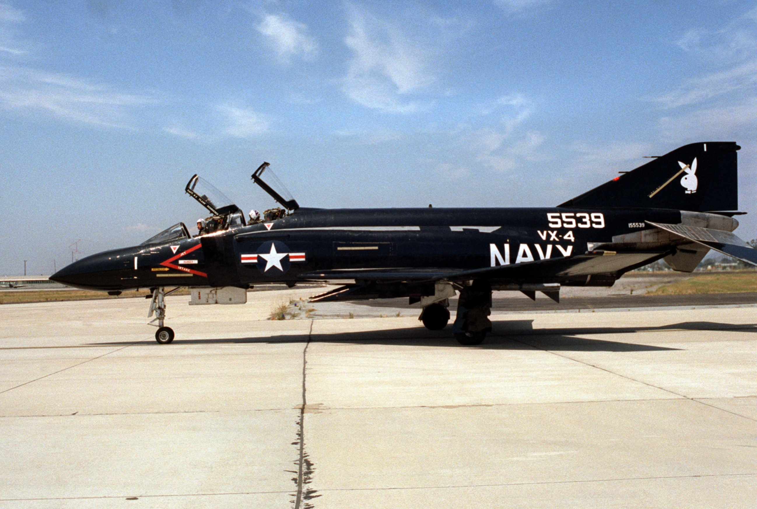 A U.S. Navy McDonnell F-4S Phantom II (BuNo 155539) from Test and Evaluation Squadron 4 (VX-4) at Naval Air Station Point Mugu, California (USA), in 1982. This aircraft was retired to the AMARC as 8F0222 on 2 May 1986.